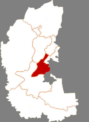 Location of Honggang District in Daqing City, China